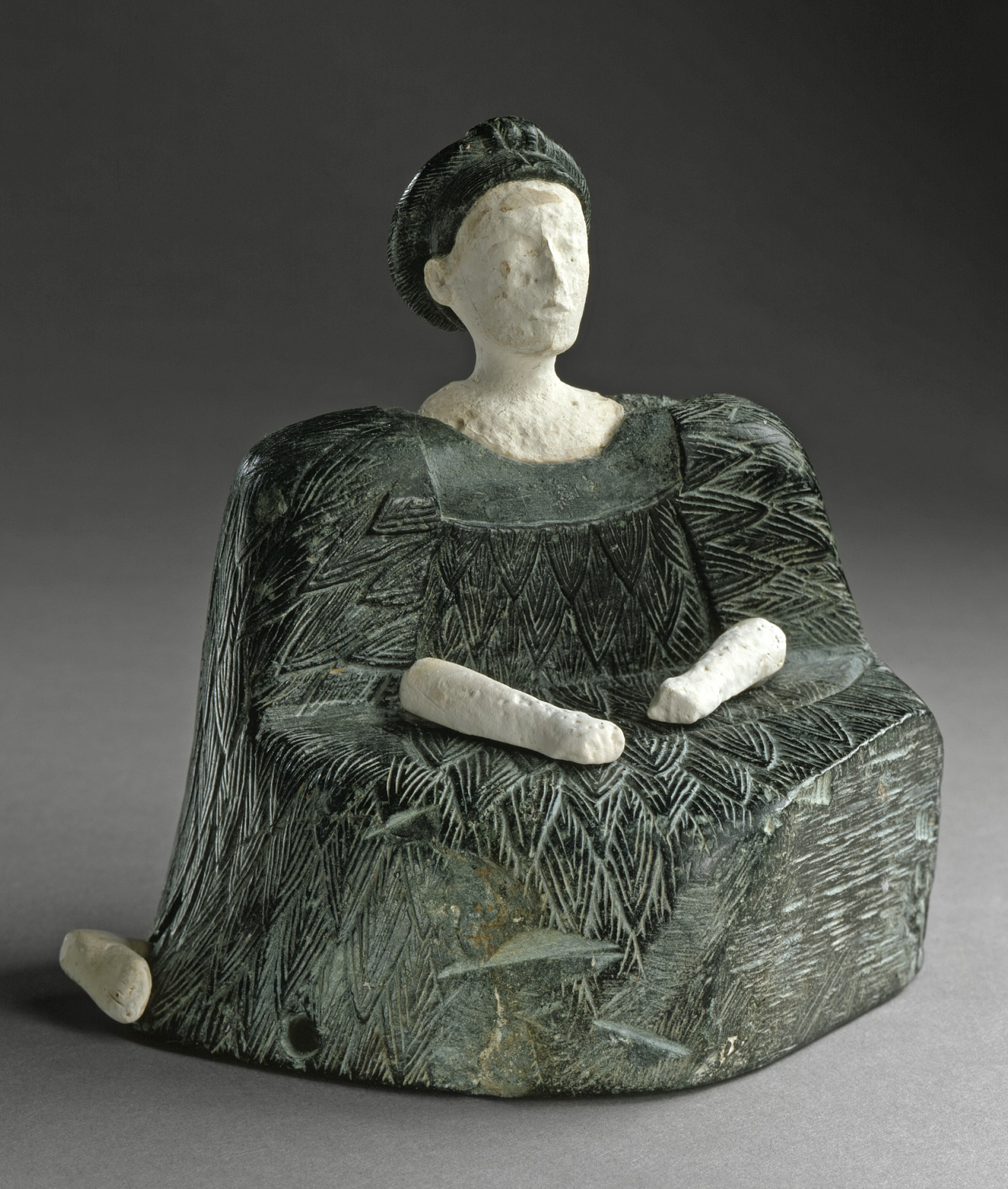 Northern Afghanistan, Ancient Bactria, circa 2500-1500 B.C. Sculpture Chlorite and limestone Height: 5 1/4 in. (13.33 cm) Purchased with funds provided by Phil Berg (M.2000.1a-f) Art of the Ancient Near East Currently on public view: Hammer Building, floor 3